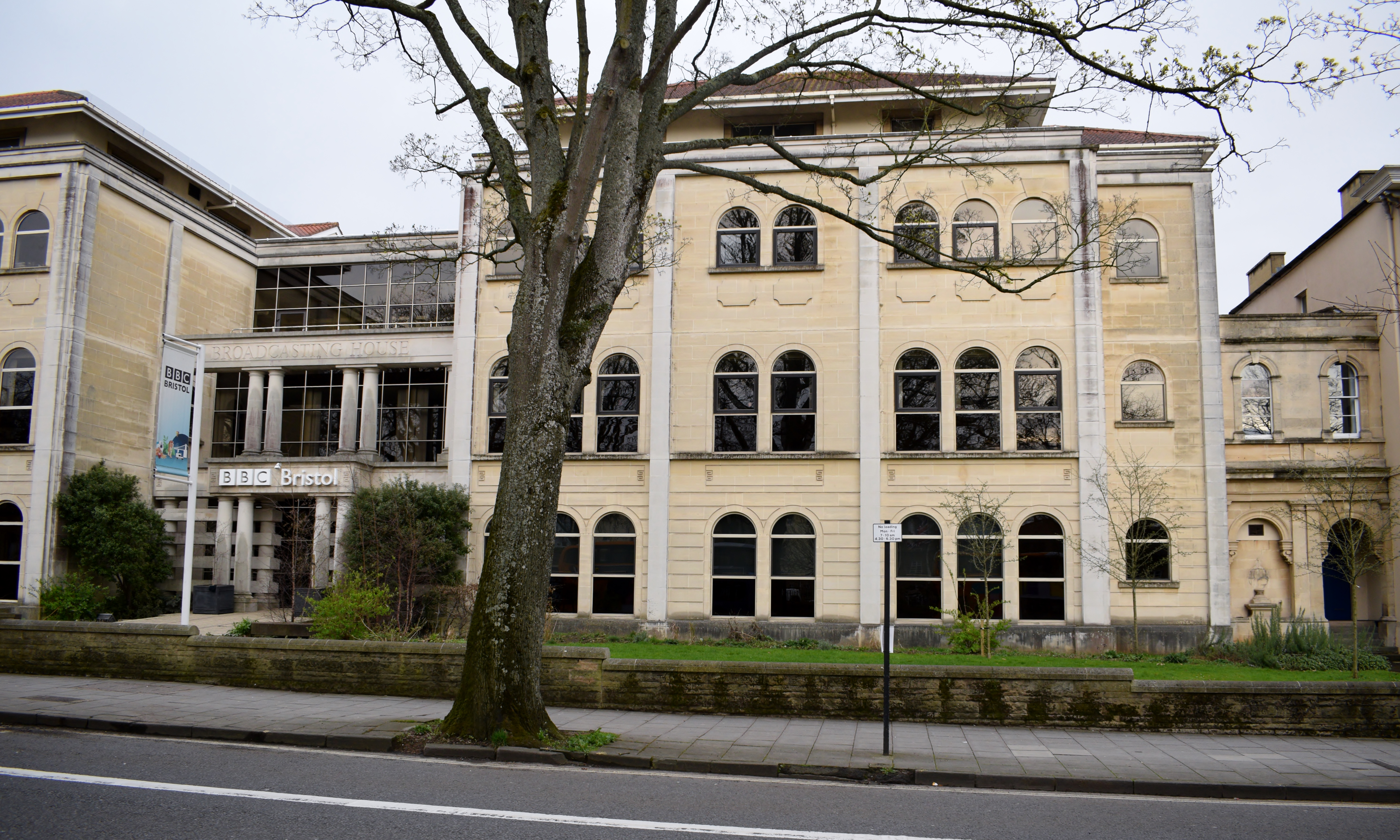 Bristol.